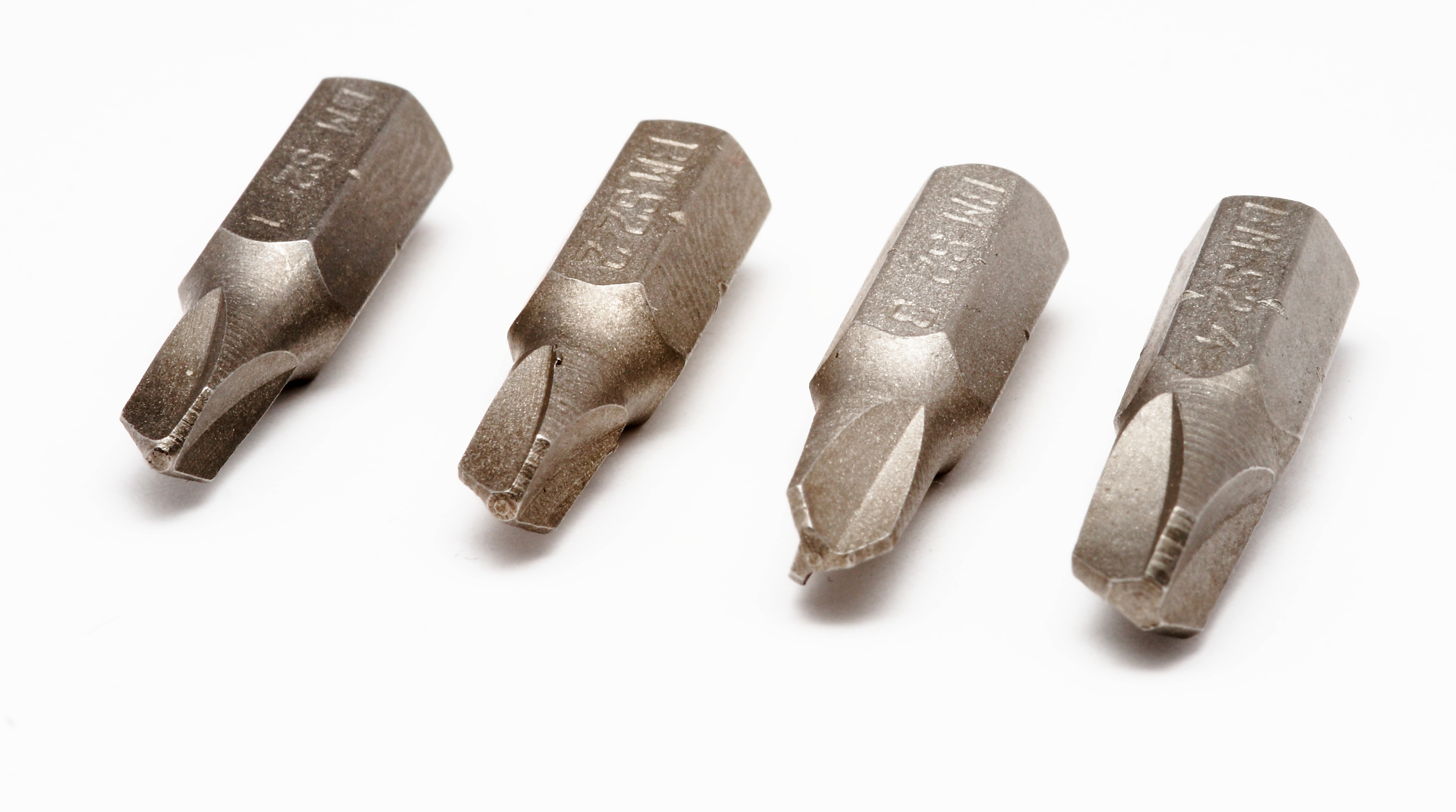 TriWing bits of size 1, 2, 3 and 4